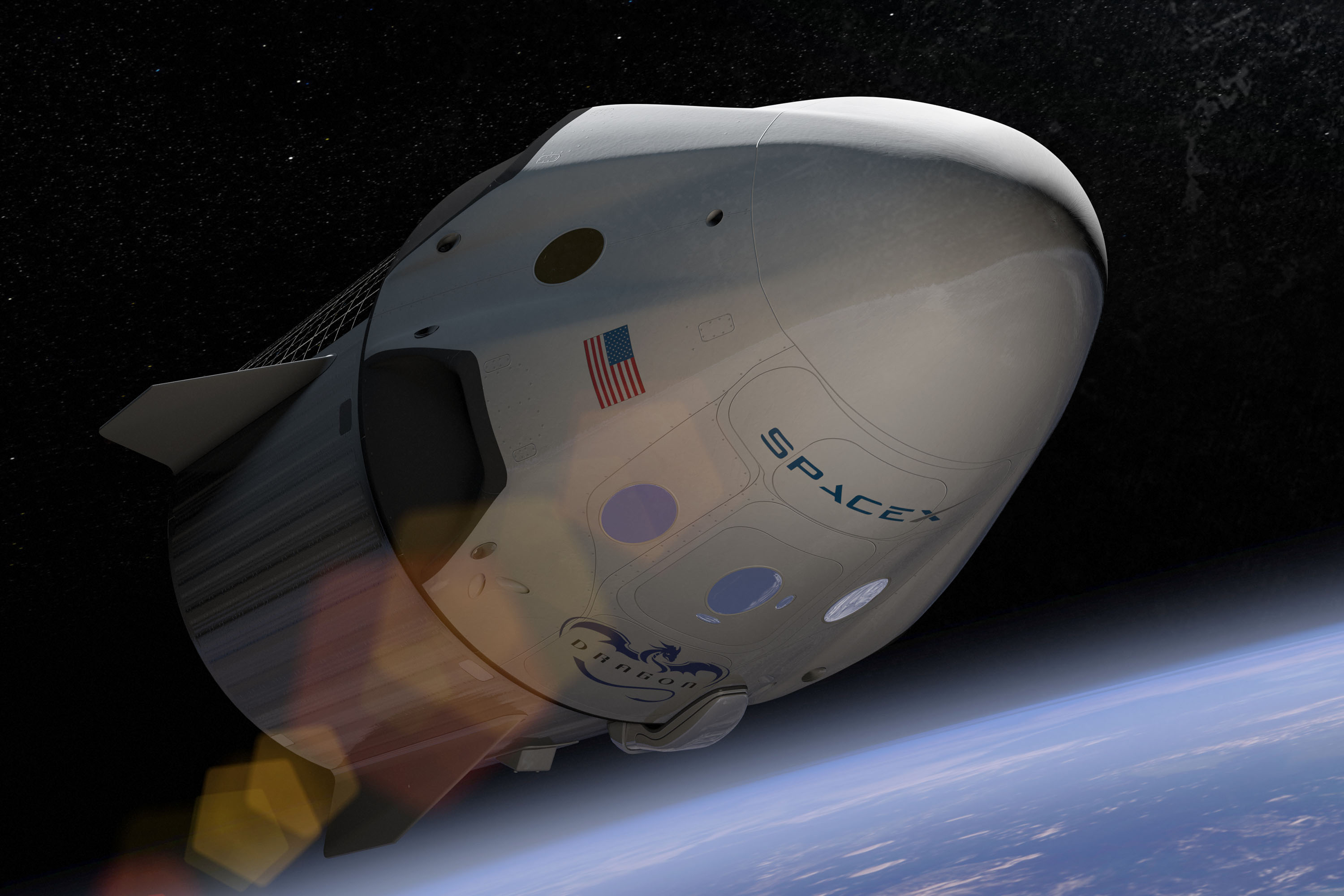 The SpaceX unveil event of Crew Dragon, the next generation spacecraft designed to carry astronauts to Earth orbit and beyond. The spacecraft will be capable of carrying up to seven crewmembers, landing propulsively almost anywhere on Earth, and refueling and flying again for rapid reusability. As a modern, 21st century manned spacecraft, Crew Dragon will revolutionize access to space.